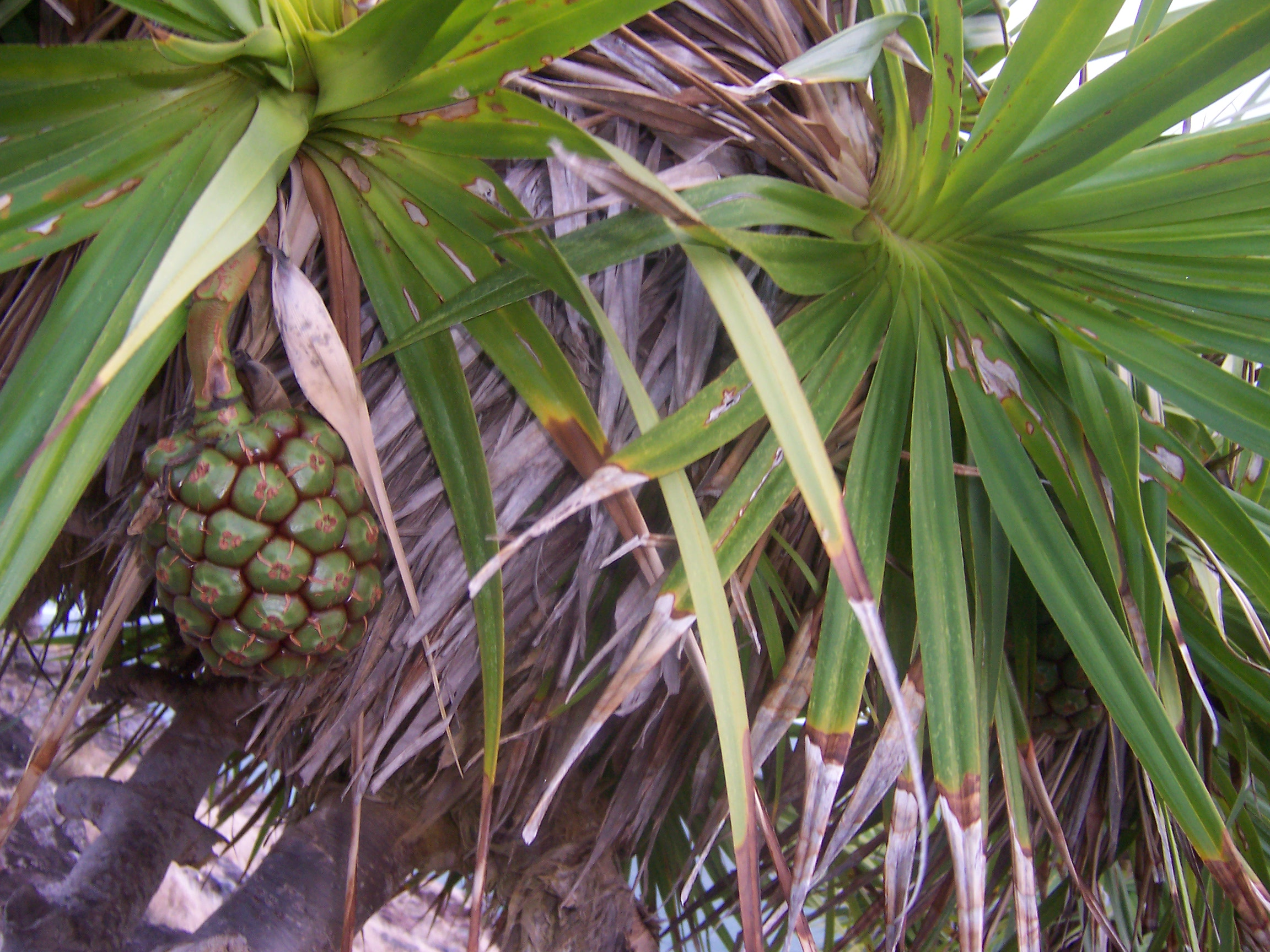 Pandanus heterocarpus (